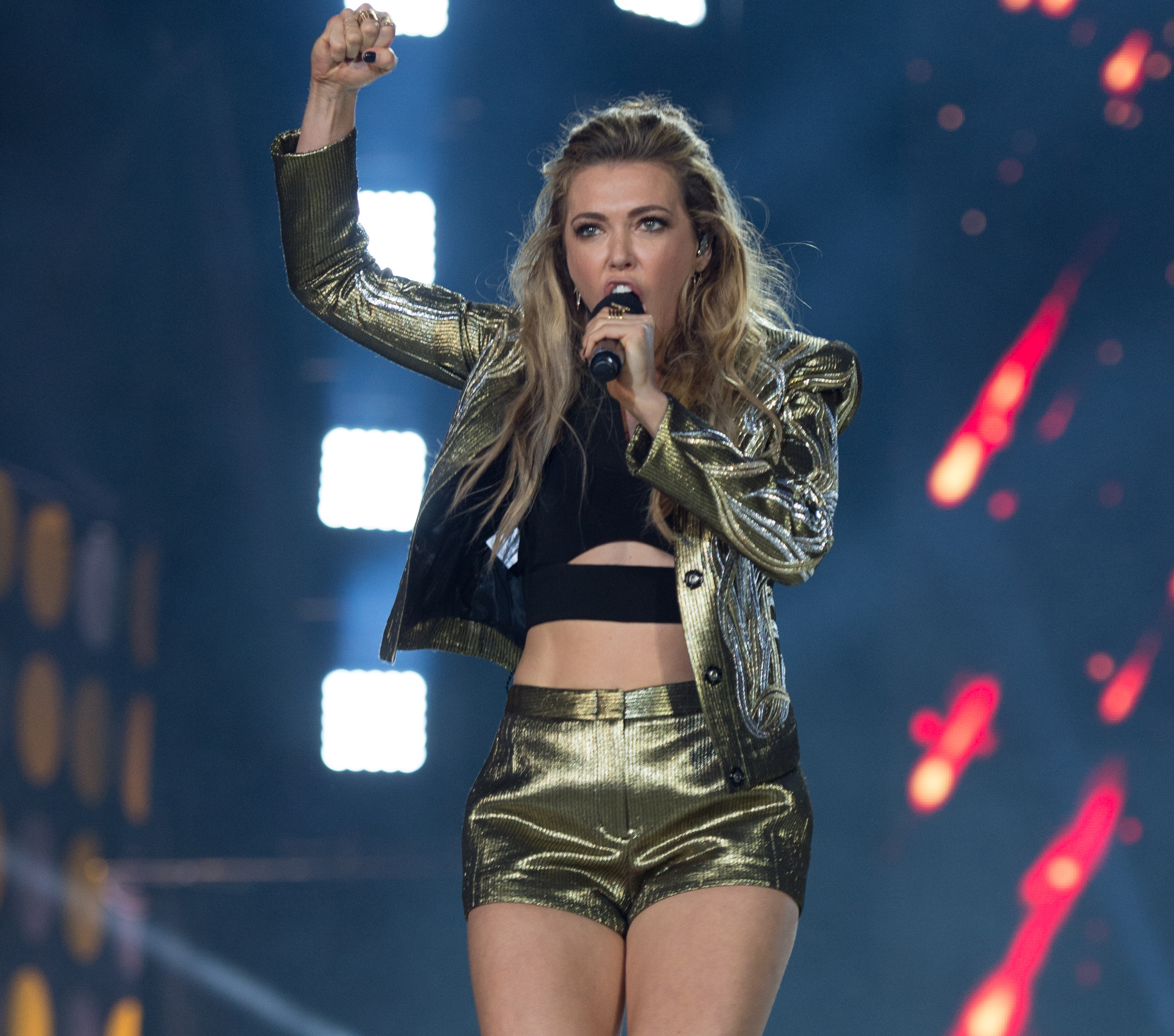 Recording artist Rachel Platten sings ‘Fight Song’ during the 2016 Invictus Games closing ceremonies in Orlando, Fla. May 12, 2016. The song served as the theme song throughout the games. (DoD photo E. Joseph Hersom)